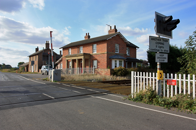 Station Farm, Lockington, East Riding of Yorkshire, England.The style and title of the building would indicate that this was a station prior to Beeching.